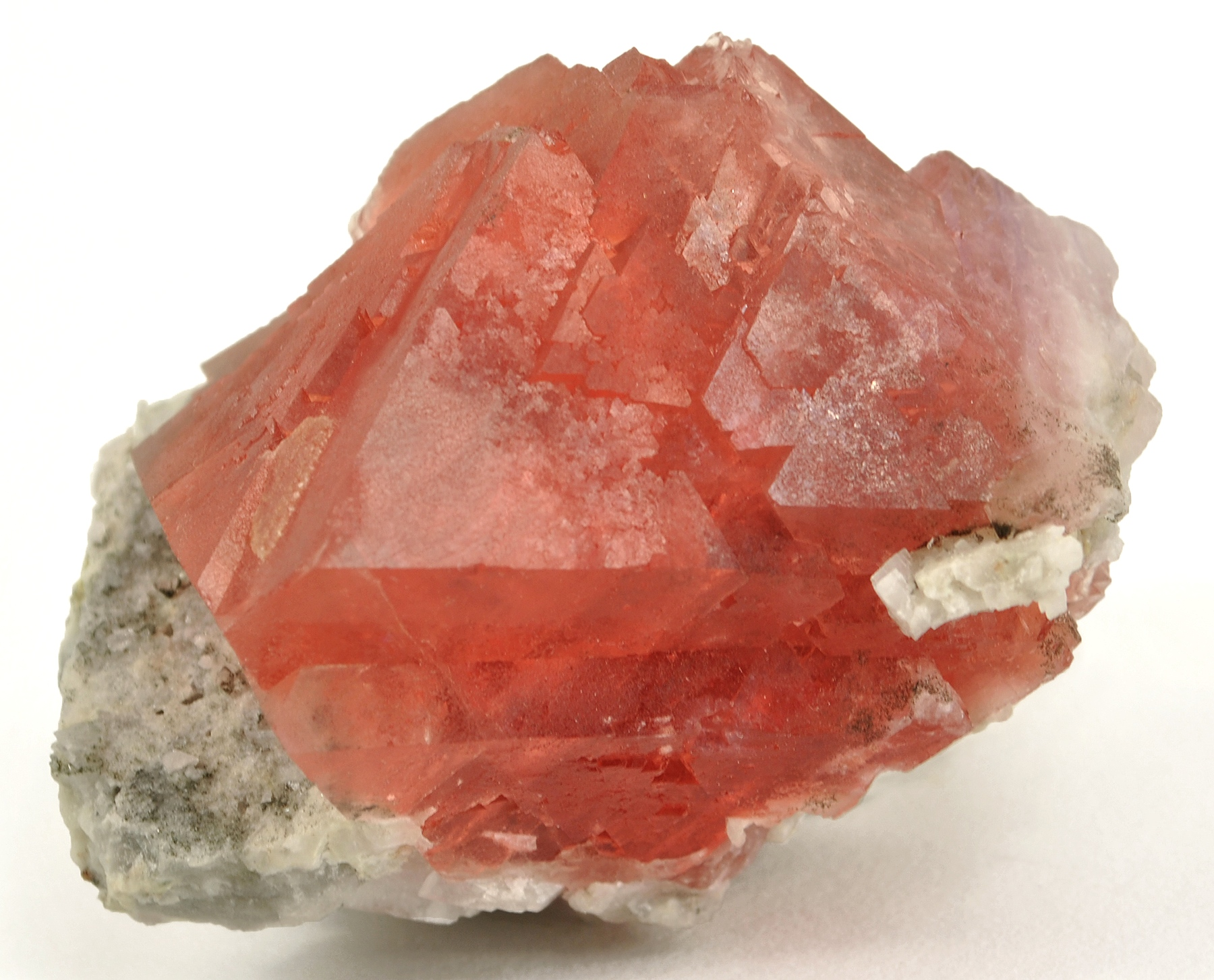 Fluorite, Orthoclase Locality: Massif de l'Aiguille Verte, Chamonix, Haute Savoie, France Size: small cabinet, 6.0 x 4.0 x 4.3 cm Fluorite on Adularia This specimen is from the new pocket found in 2007 at these Alpine heights, is INTENSE color for a pink fluorite, almost red. It is a superb , balanced piece with several combined octohedrons forming a 4.5 x 4.5 x 4 cm cluster on a bit of adularia matrix. The fluorite is complete all around and nearly pristine (just one very slightly dinged tip, hard to see). These pieces have been priced at, and sold, for big money - the reason being obvious in person when you compare the color saturation and gemminess/transparency on one from this pocket, to previous finds or the general "Chamonix pink" style. This pocket will stand on its own merits, as one of the great Alpine finds, I believe. Pink or red fluorite is always pricey, but in context, for the quality compared to the norm, these are worth it in my opinion. Few specimens in this size range had such good balance, free of clunky matrix but also complete all around.